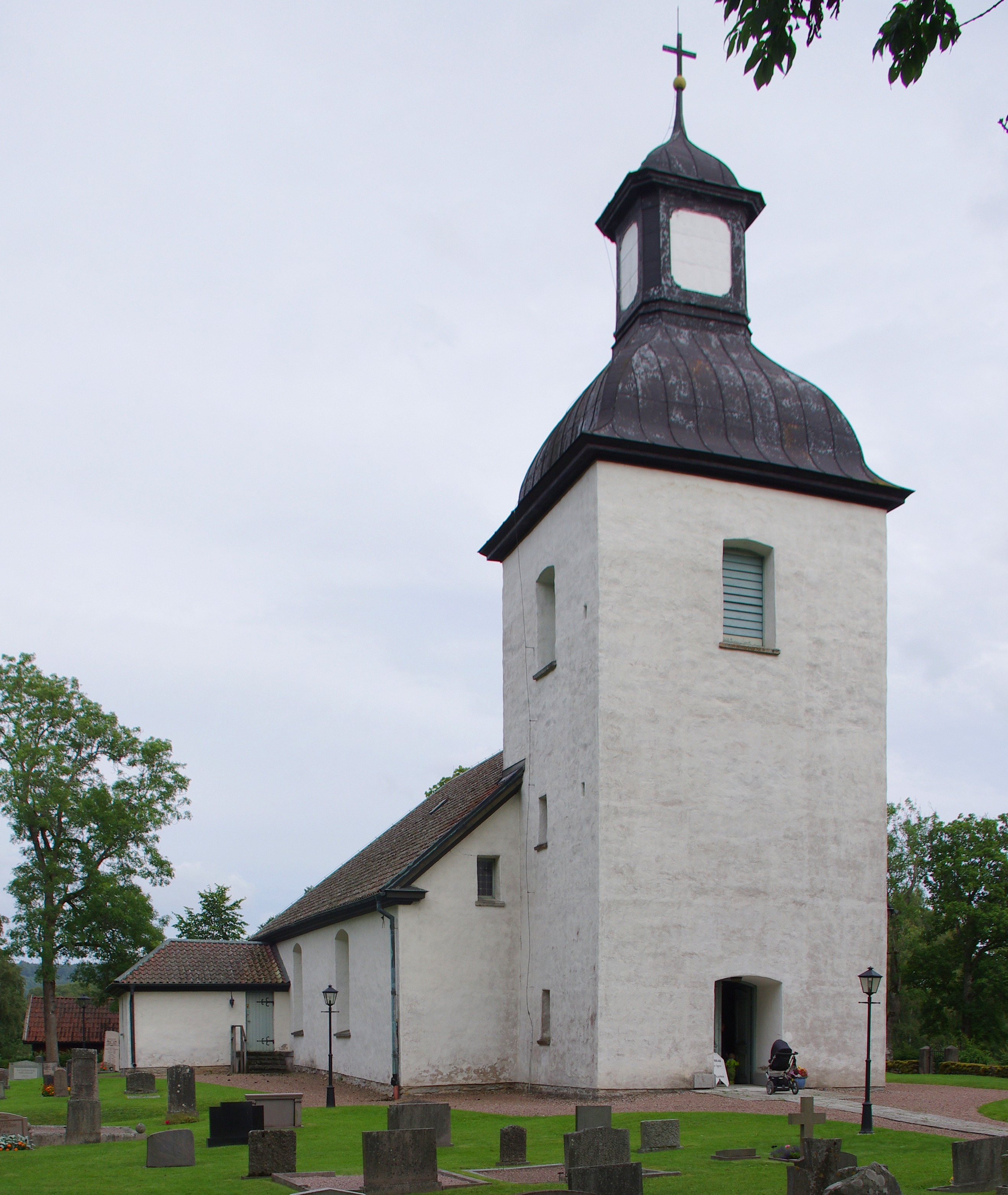 Eggby kyrka (swedish:Eggby church) in Eggby parish in Valle hundred in Västergötland and in Skara municipality in Västragötaland county, Sweden.